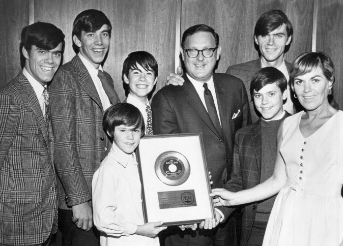 Publicity photo of the Cowsills receiving a gold record for their hit single "The Rain, the Park and Other Things" in 1967.